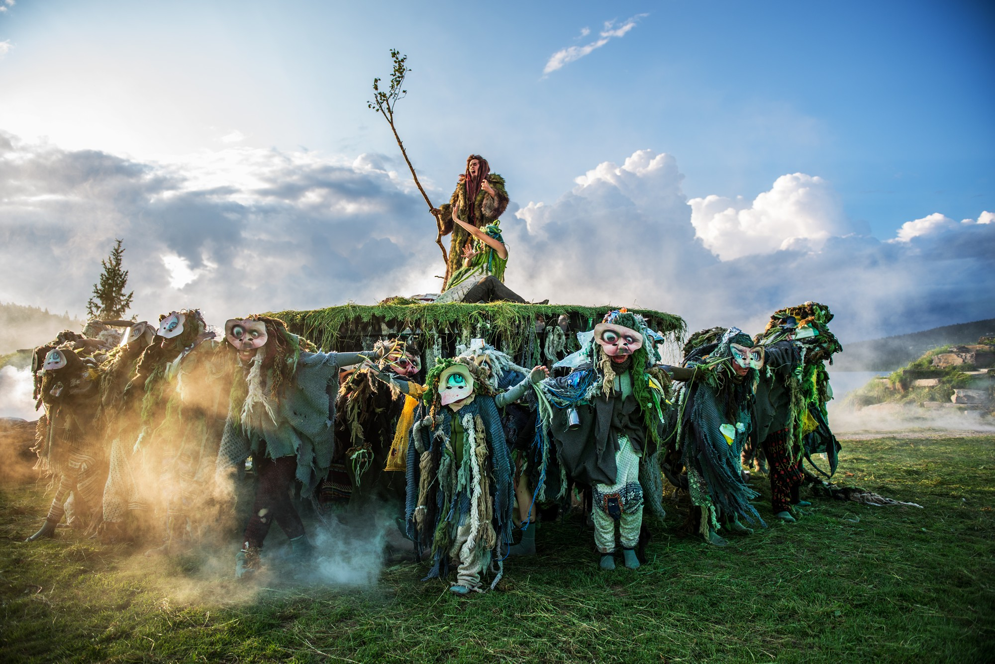 Peer Gynt meets the Mountain King by lake Gålåvatnet.